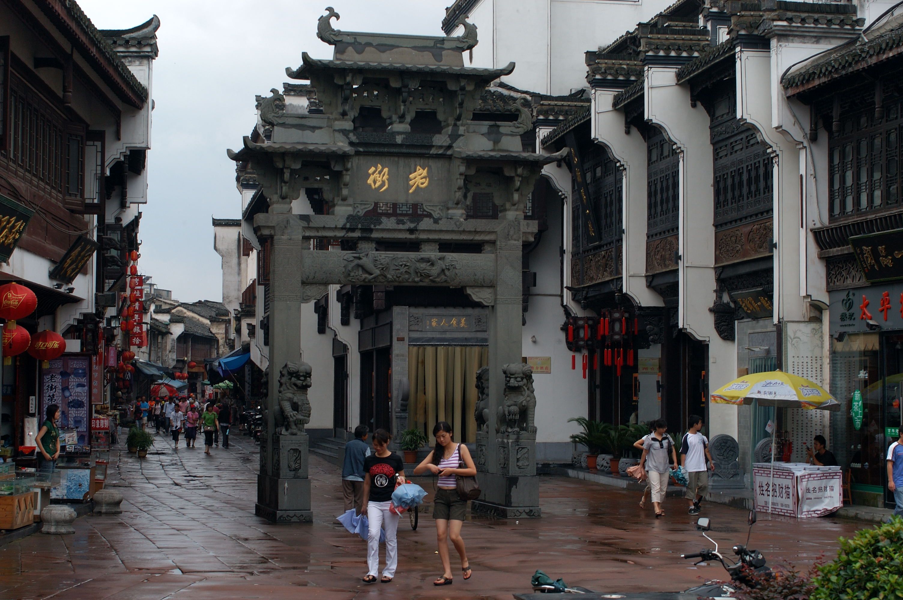 Here is An Hui Tun Xi, the Old city now rename to Huang Shan Shi.